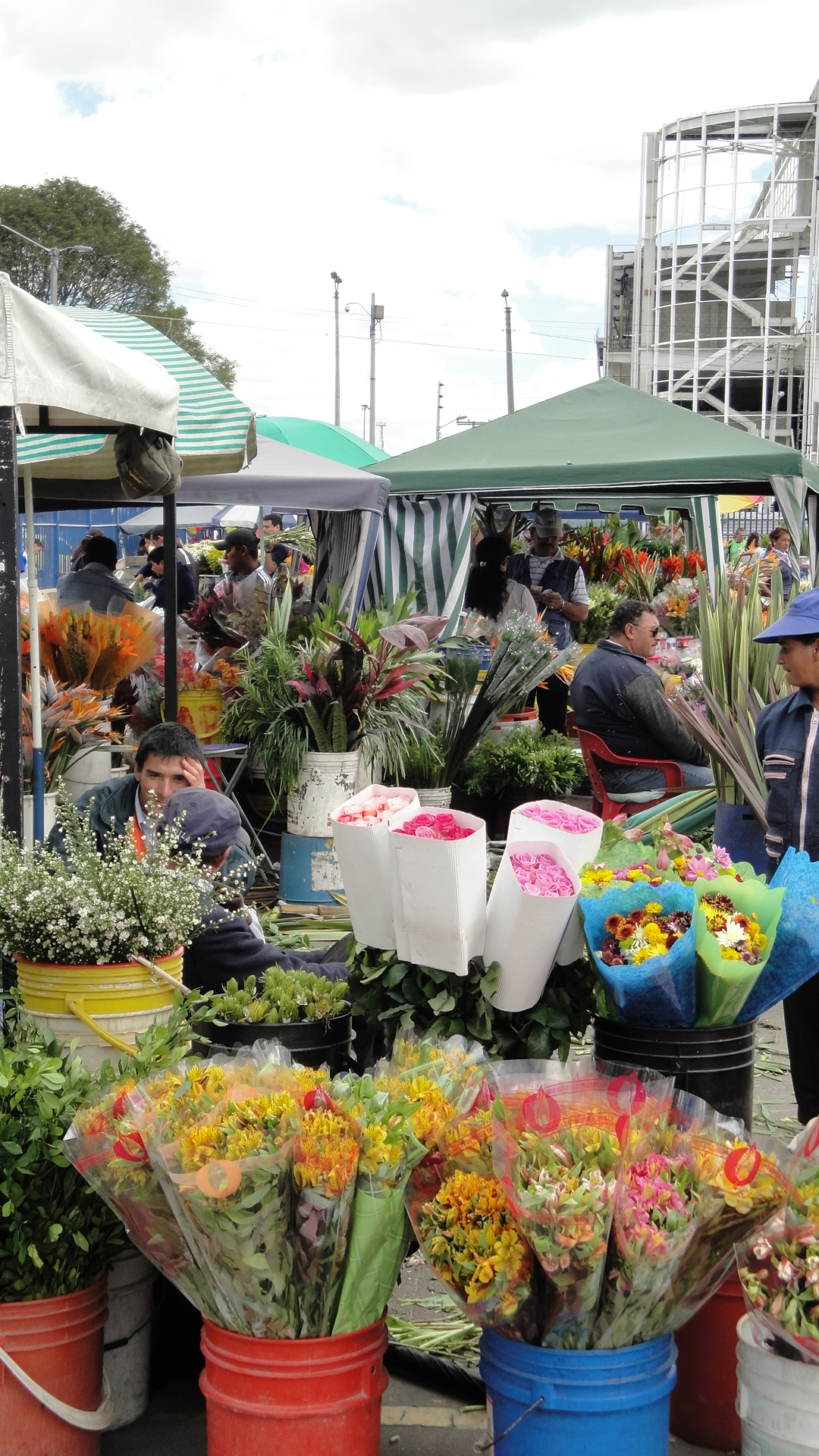 open-air flower market